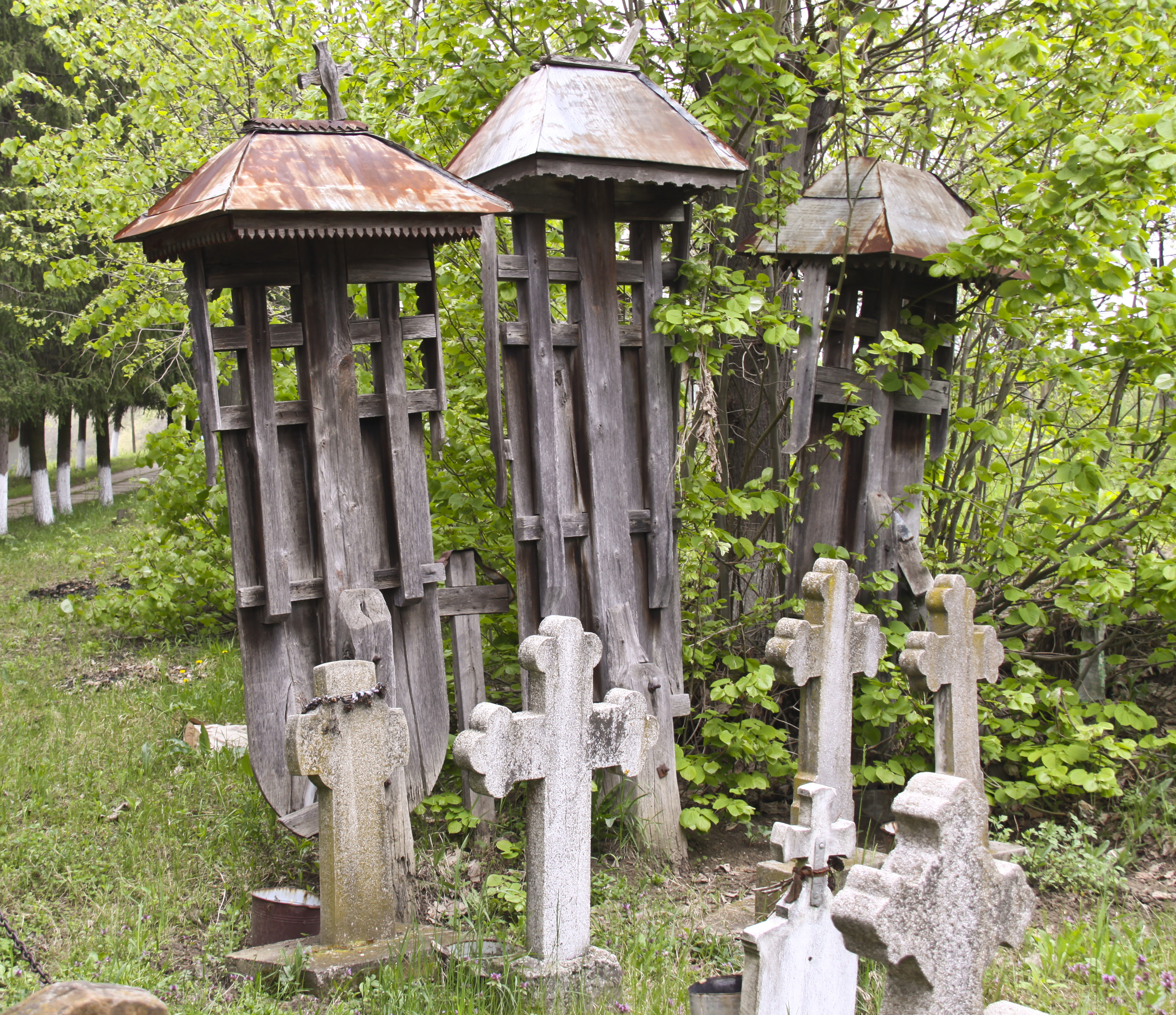 Mamu, Vâlcea county, Romania: the wooden church.